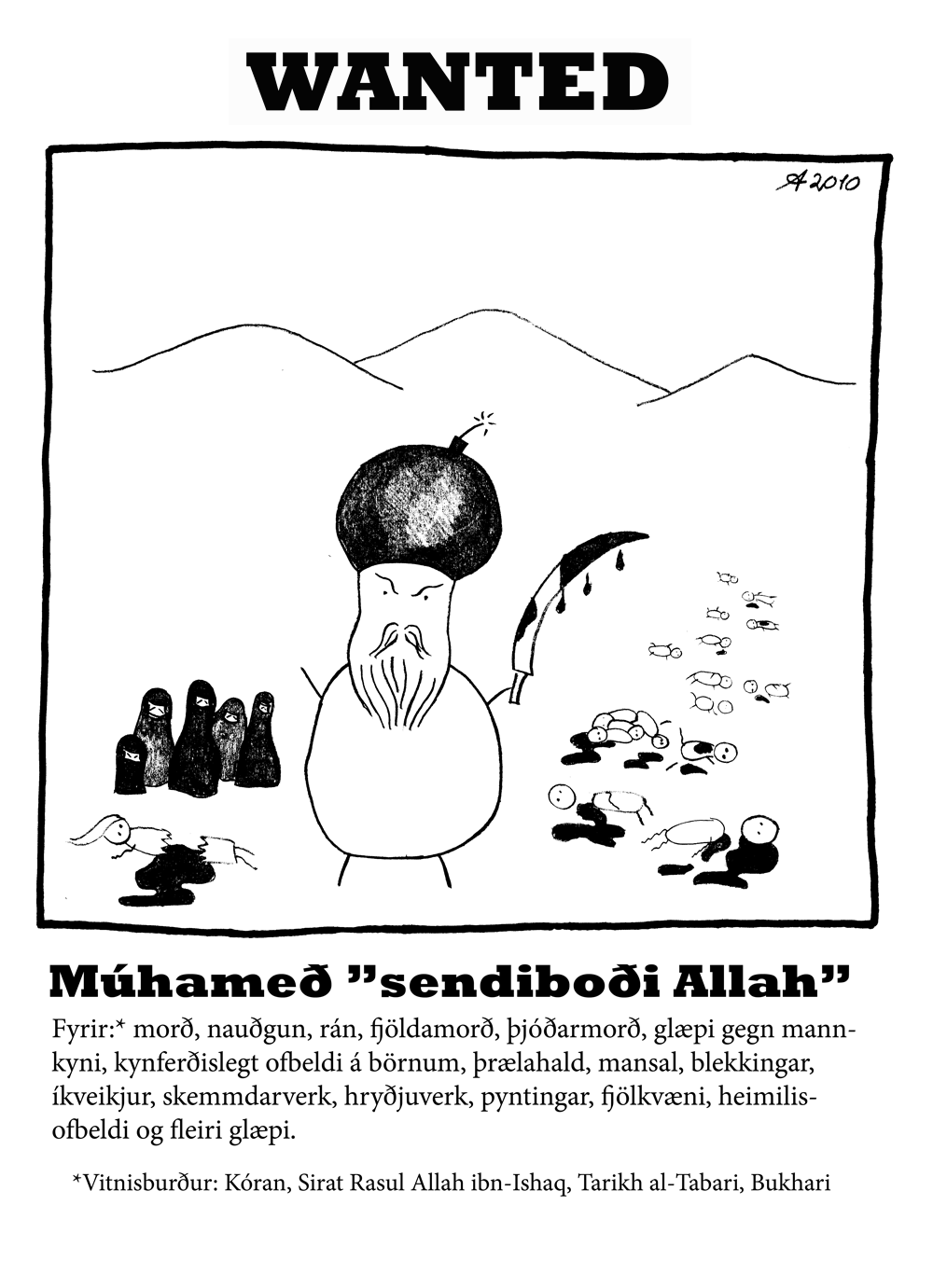 Icelandic Muhammad cartoon, published May 20th in year 2010, in honor of the firsh "Everybody draw mohammed day". In English, the texts reads: Wanted, Muhammad "messenger of Allah", for murder, rape, robbery, mass murder, genocide, crimes agains humanity, sexual abuse of children, slavery, deceptions, arson, destruction of property, terrorism, torture, polygamy, domestic violence and other felony. Witnessed in: Quran, Sirat Rasul Allah ibn-Ishaq, Tarikh al-Tabari, Bukari. The cartoon was published on several websites at the time.